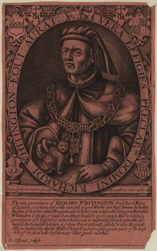 Posthumous engraving of Richard Whittington. Print seller Peter Stent altered the original plate, showing a skull, to match the public expectation of showing the subject with his mythical cat.